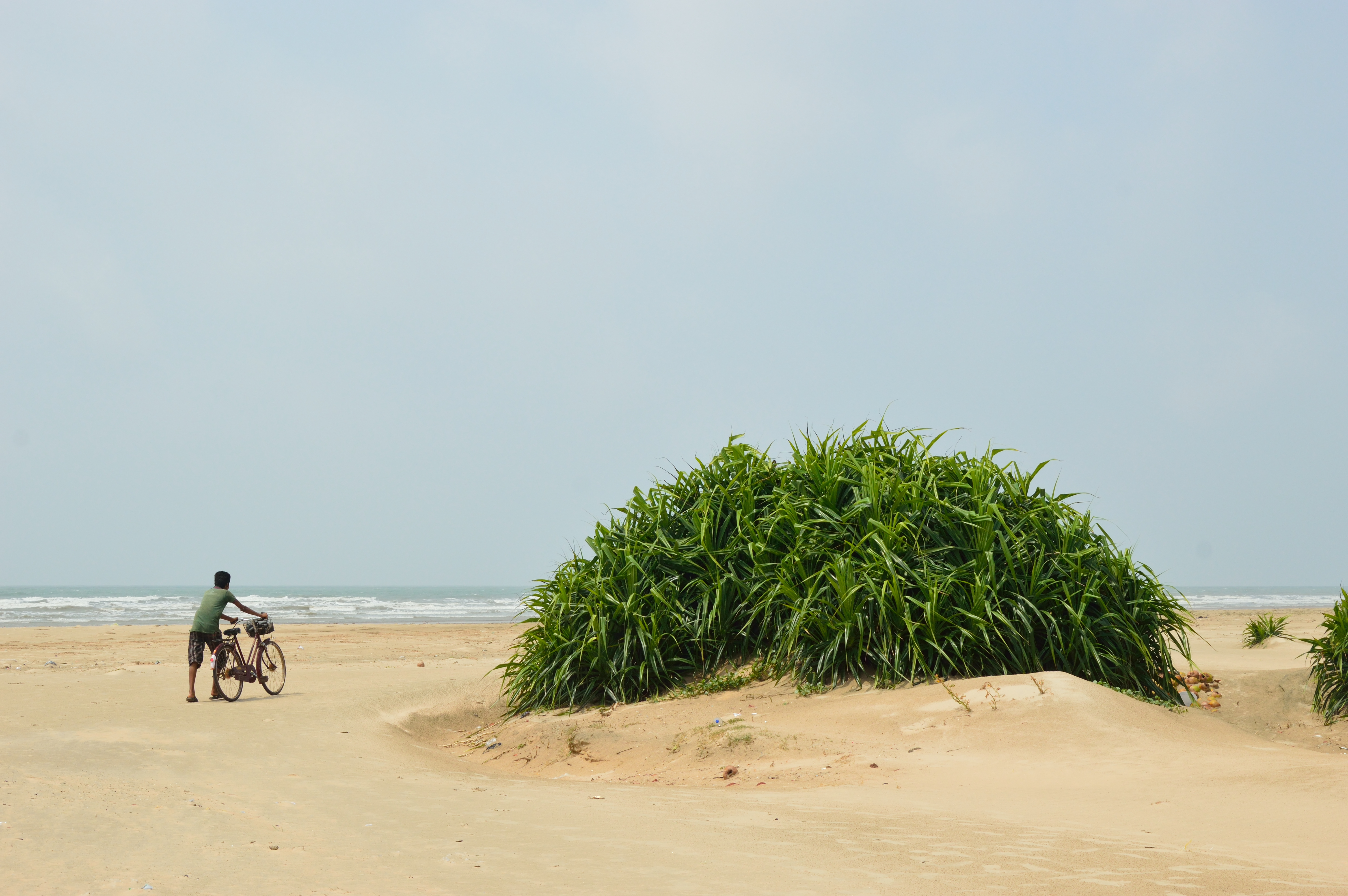 Photographed in West Bengal.